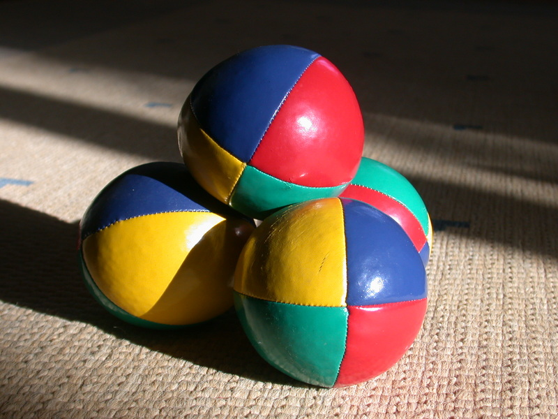 Juggling balls. Sample scene for HDRI (standard LDR, taken using auto exposure).